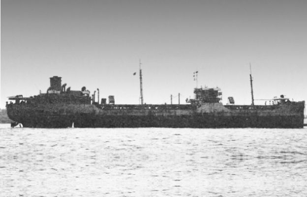 United States War Shipping Administration T2 tanker Fort Lee, built in 1943 and sunk by a German U-boat in the Indian Ocean in 1944